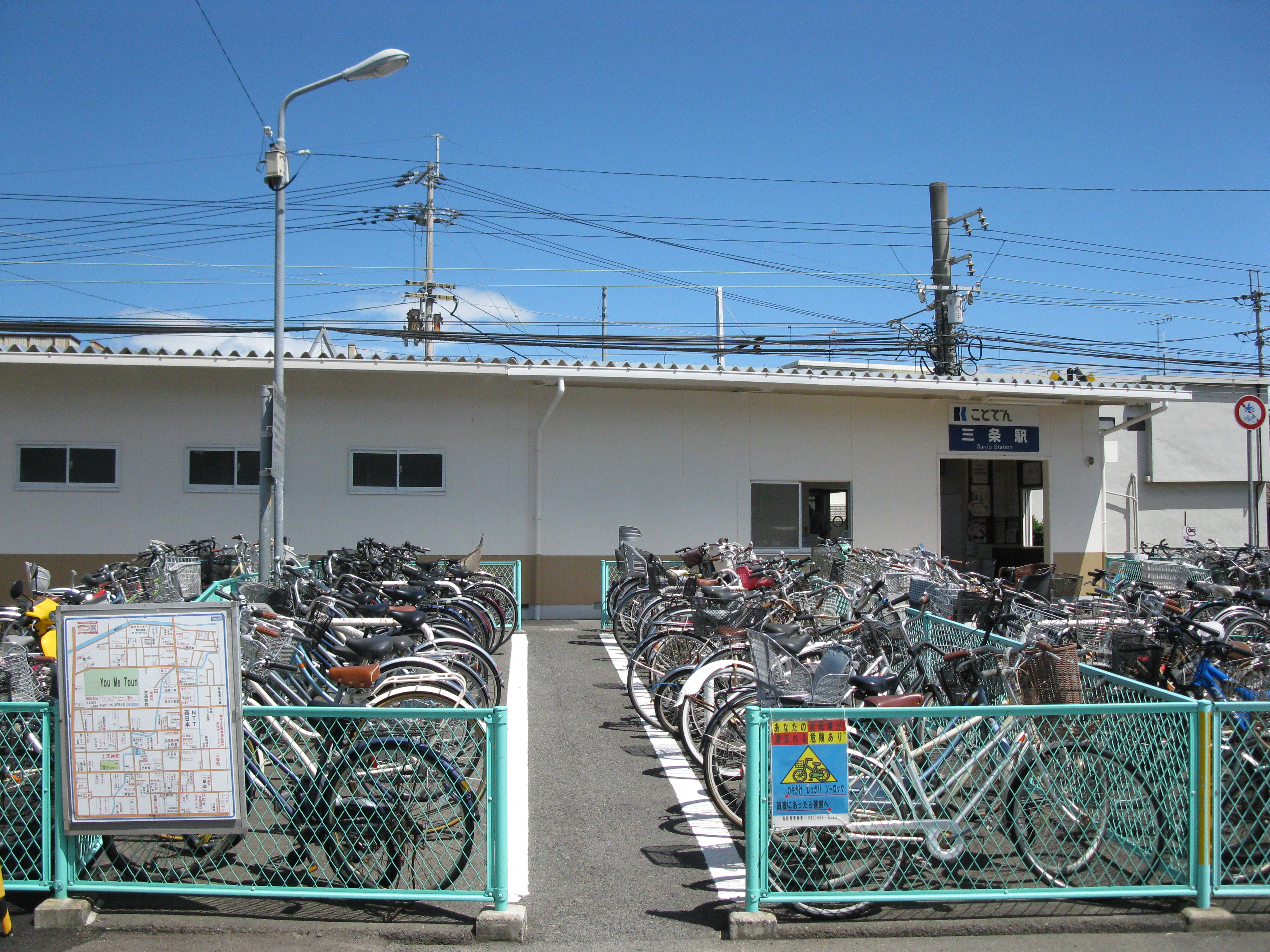 Sanjō Station building (Takamatsu-Kotohira Electric Railroad(Kotoden) Kotohira Line)